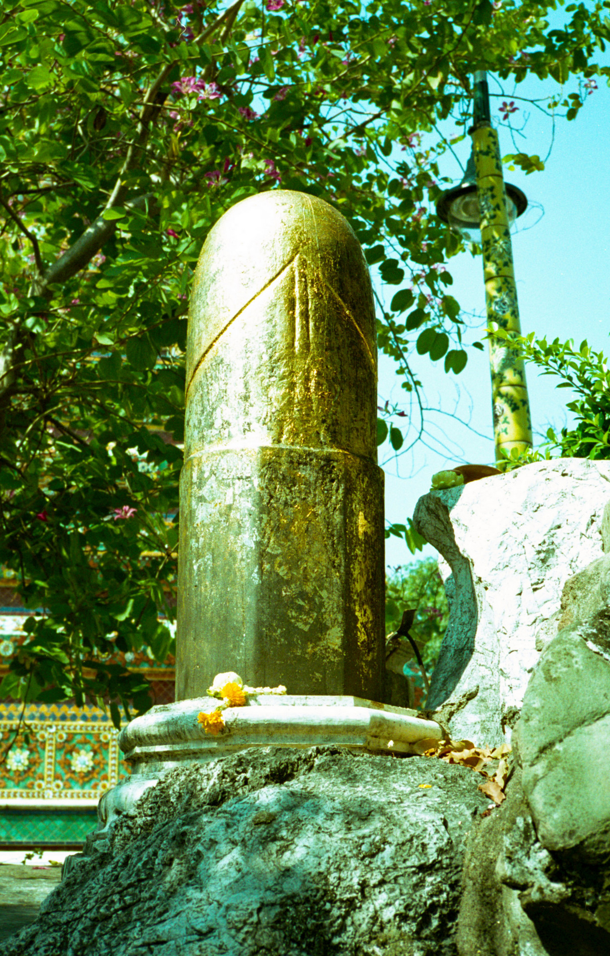 Wat Pho lingam